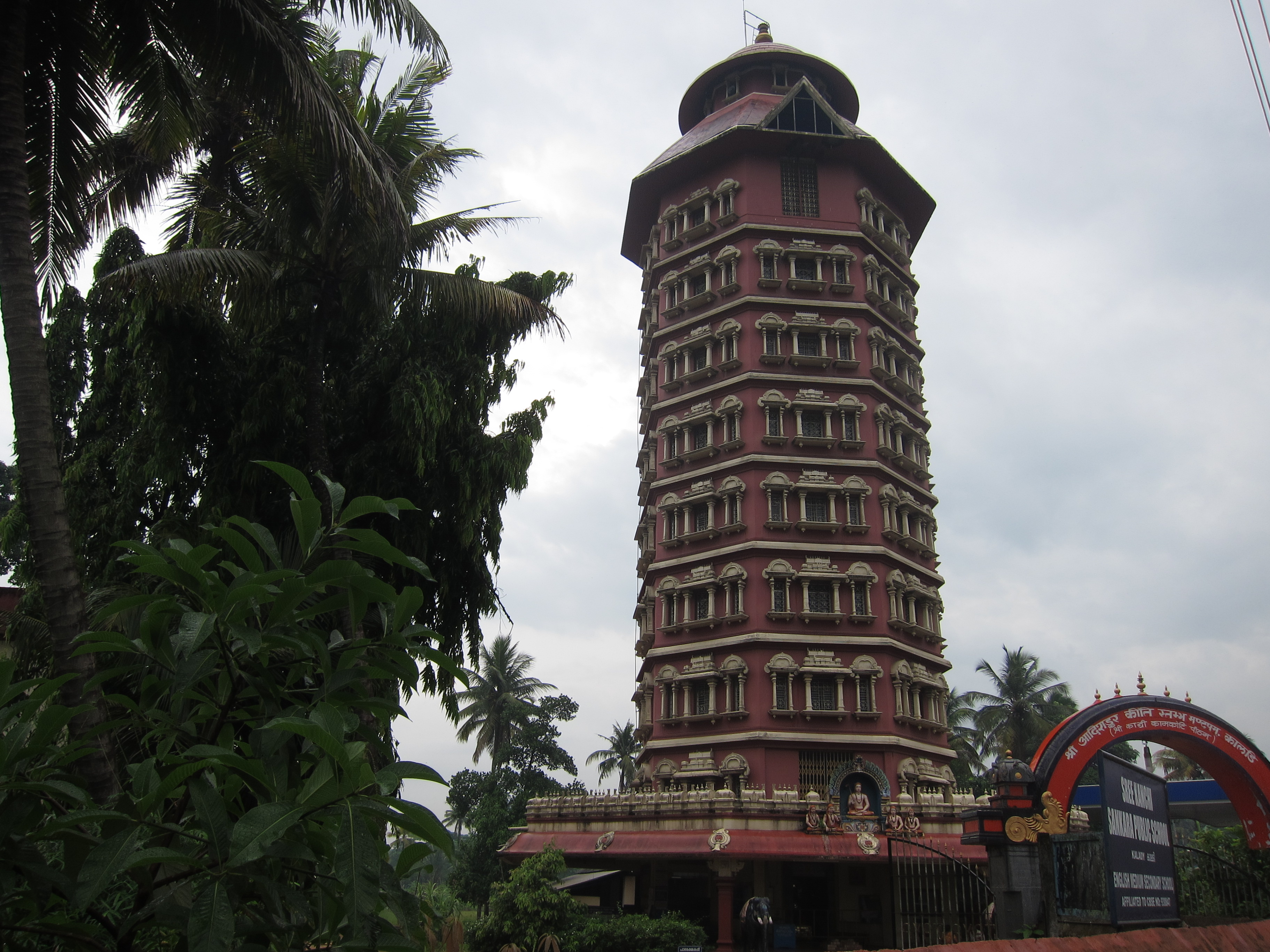 Kalady Sri Sankara Tower Opposite to Kalady Bus Stand Ankamali-Perumbavoor Road Ernakulam District 6 k.m away from Ankamali 8 k.m away from Nedumbassery (Kochi) Airport